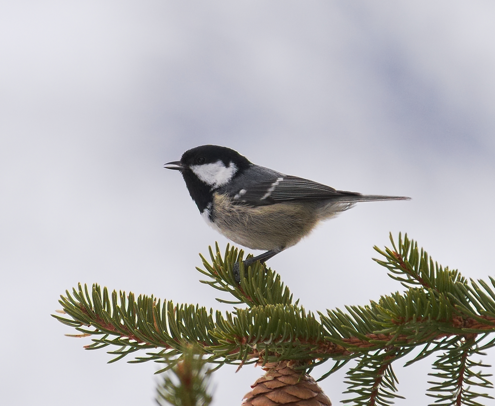 Paradiski, Coal tit - Periparus ater. Taken in La Plagne, Champagny-en-Vanoise, Savoie, France.